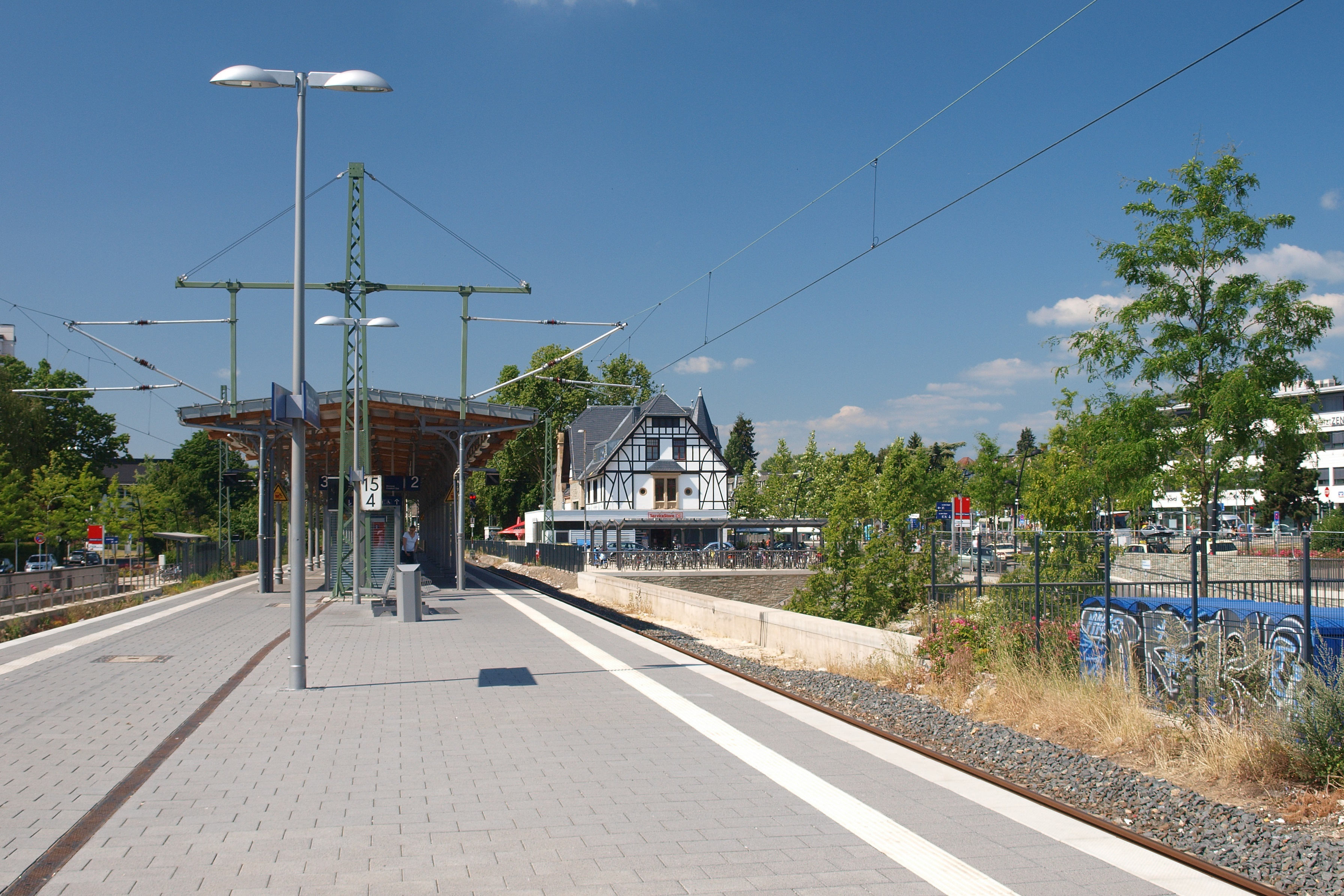 Oberursel station